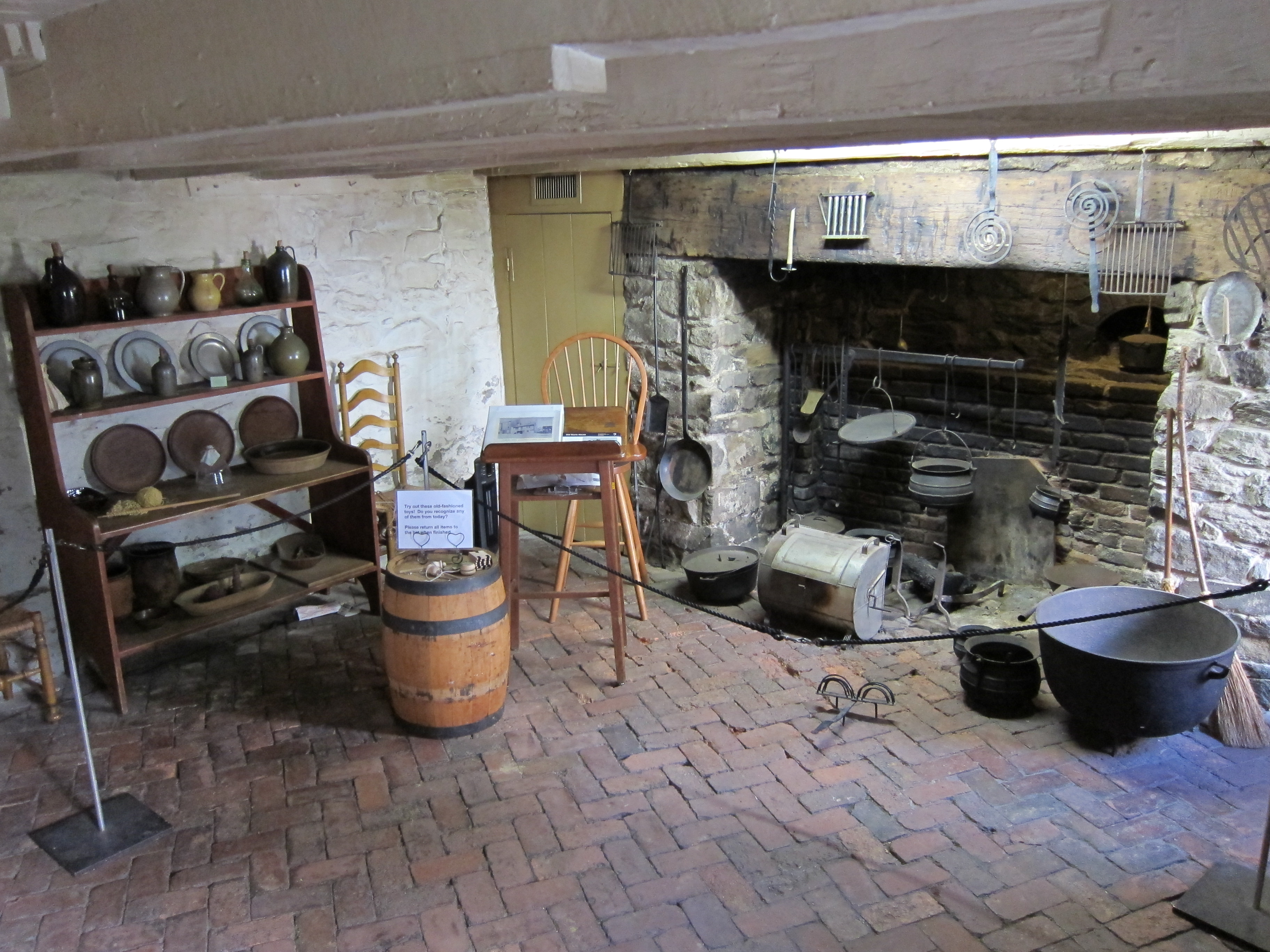 The large first floor kitchen of the Old Stone House. Photograph taken April 6, 2011.